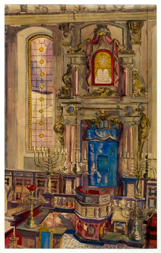 Interior of Halberstadt synagogue, Germany. Watercolour painting.